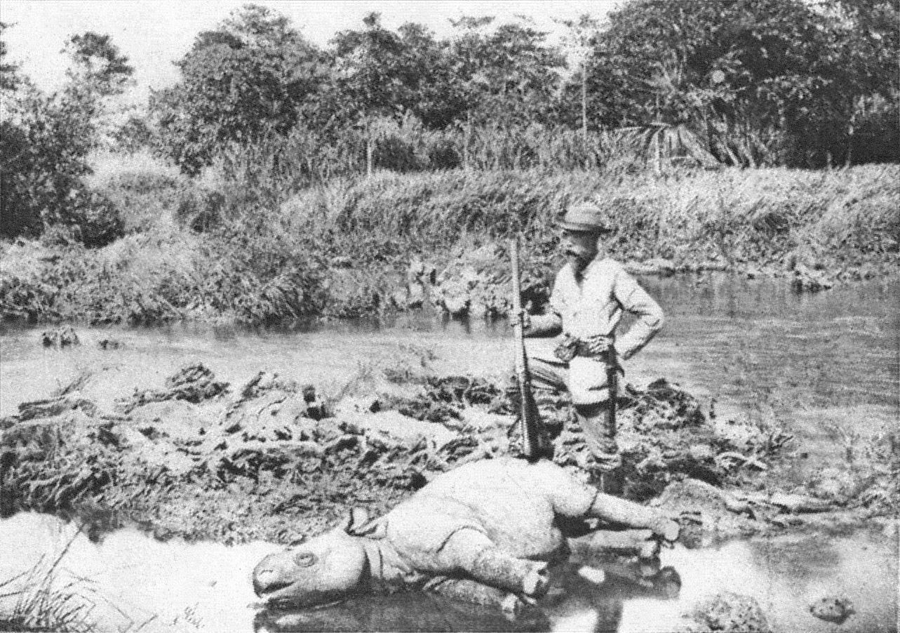 A photo of a young but dead Javan Rhinoceros in Ujung Kulon, the hunter is Charles te Mechelen.